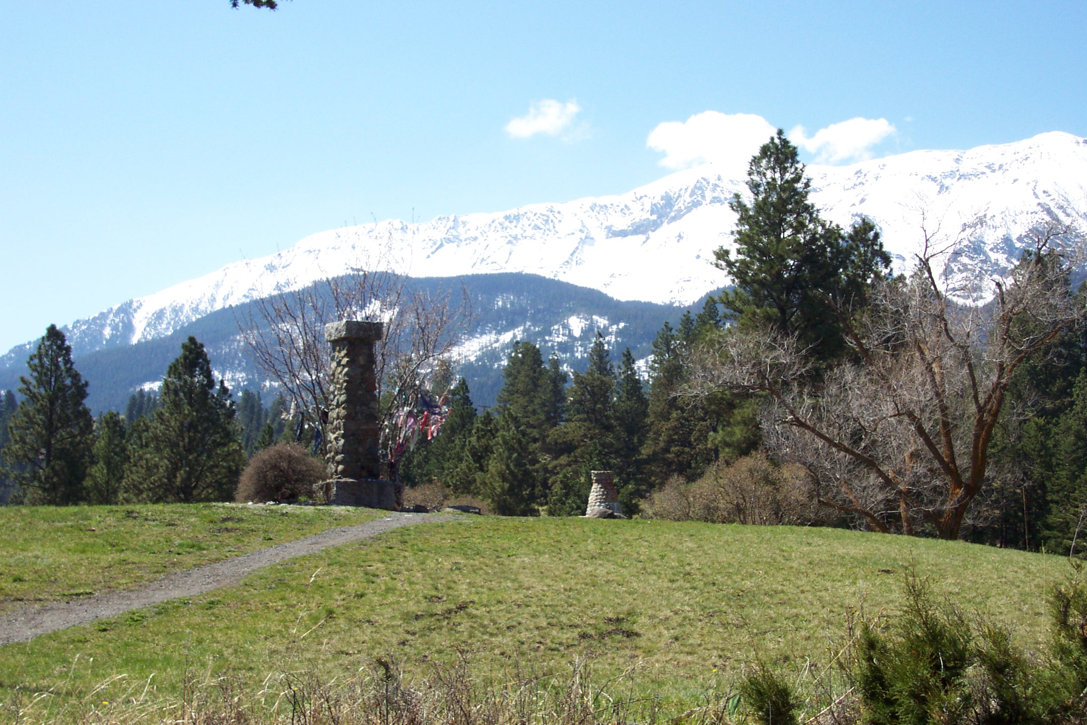 Old Chief Joseph had a traditional burial at the forks of the Lostine and Wallowa Rivers when he died in 1871. In 1886 his grave was desecrated by local property owners and his skull was removed as a souvenir. In 1926, the remains of the elder Chief Joseph were reburied. His grave is marked by a tall stone marker bearing the legend, "To The Memory of Old Chief Joseph, Died 1870." The cemetery is a national historic landmark and since 1992 it is part of the Nez Perce National Historical Park.